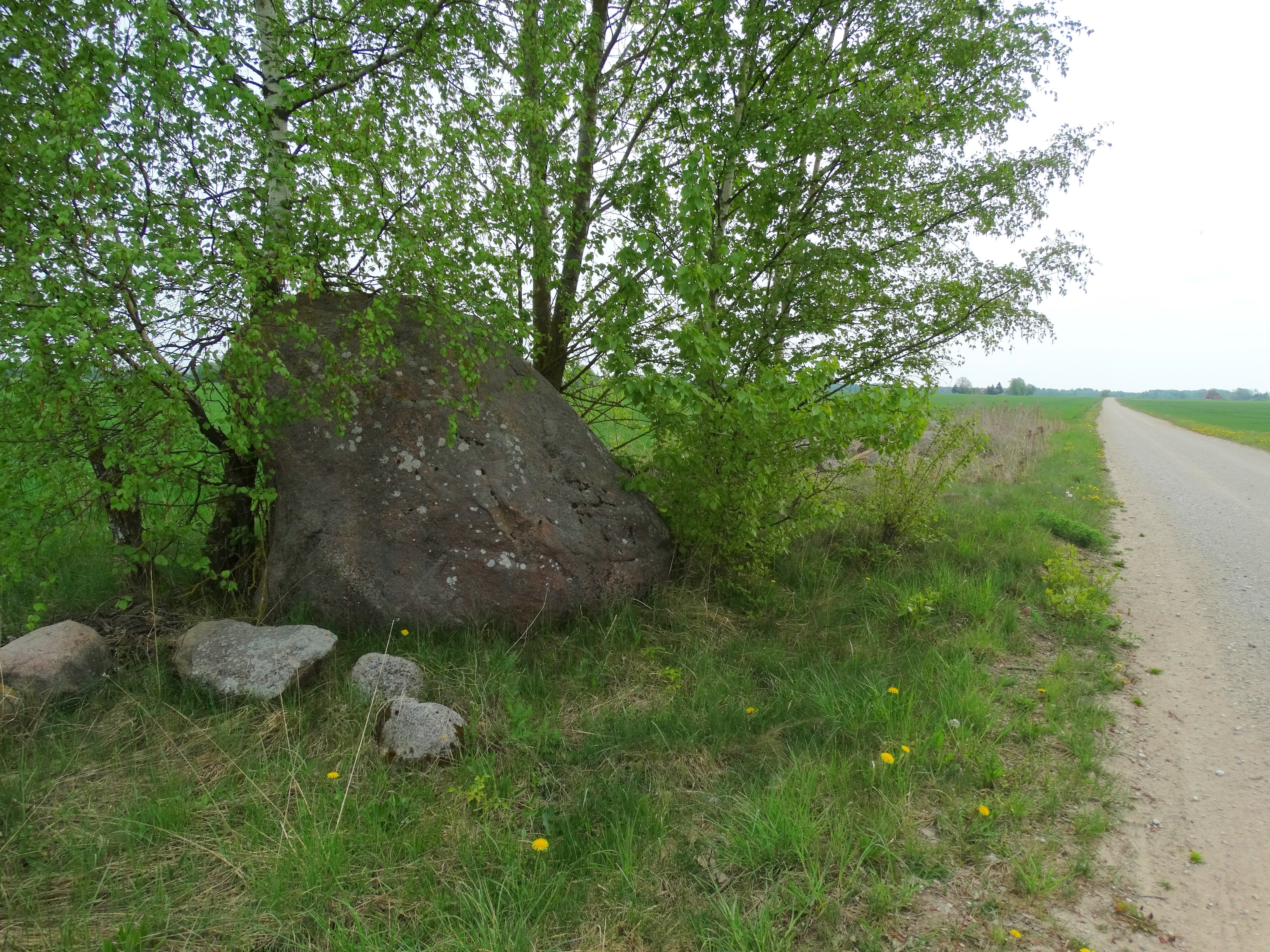 Getautai, Pakruojis district, Lithuania